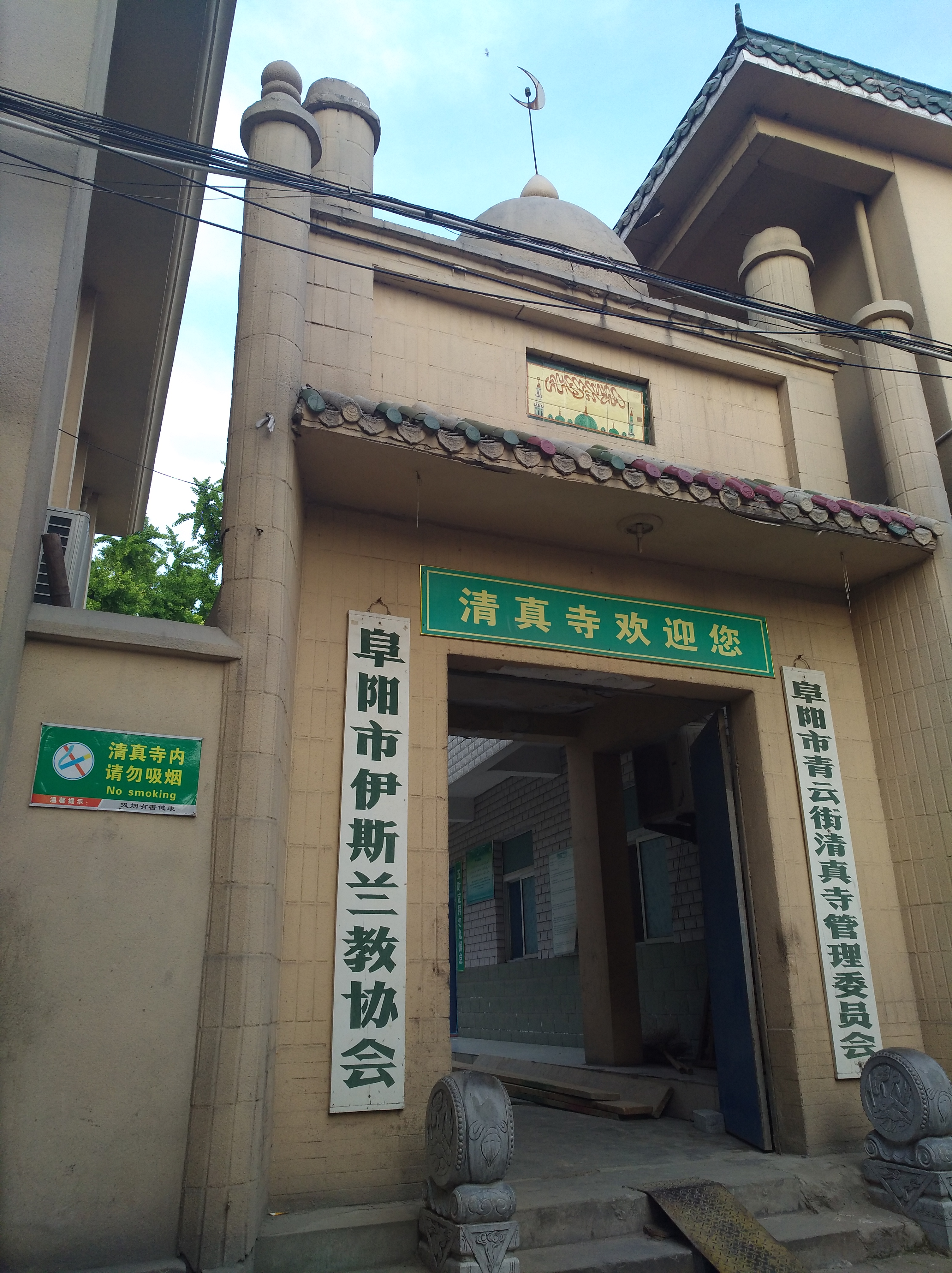 the qingyun street mosque located in fuyang,anhui province,the PRC. photoed in 2017.05.24